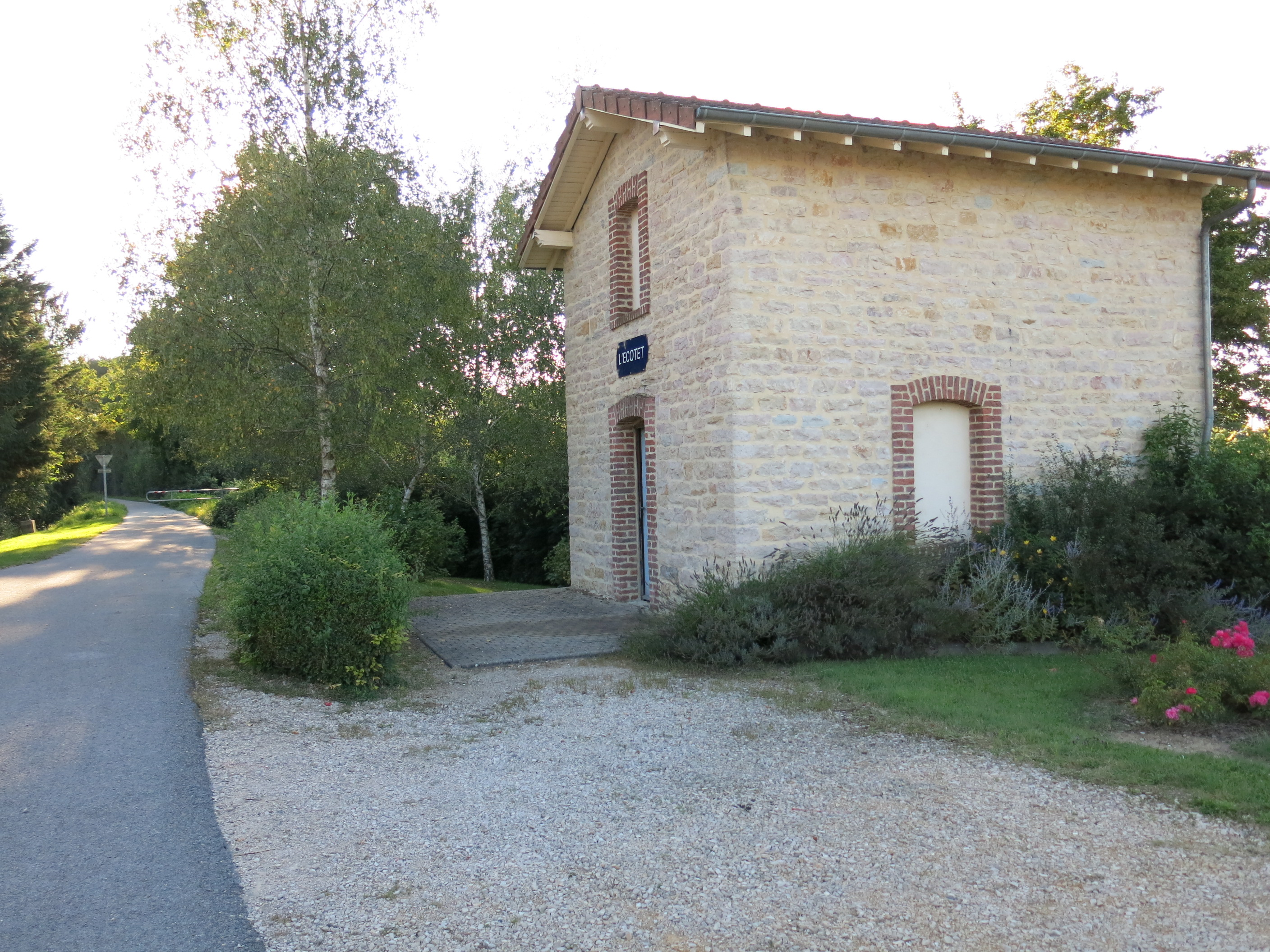 L'Ecotet in Louhans (Saône-et-Loire, France). It is the former small railways station of the former railways line from Tournus to Louhans.